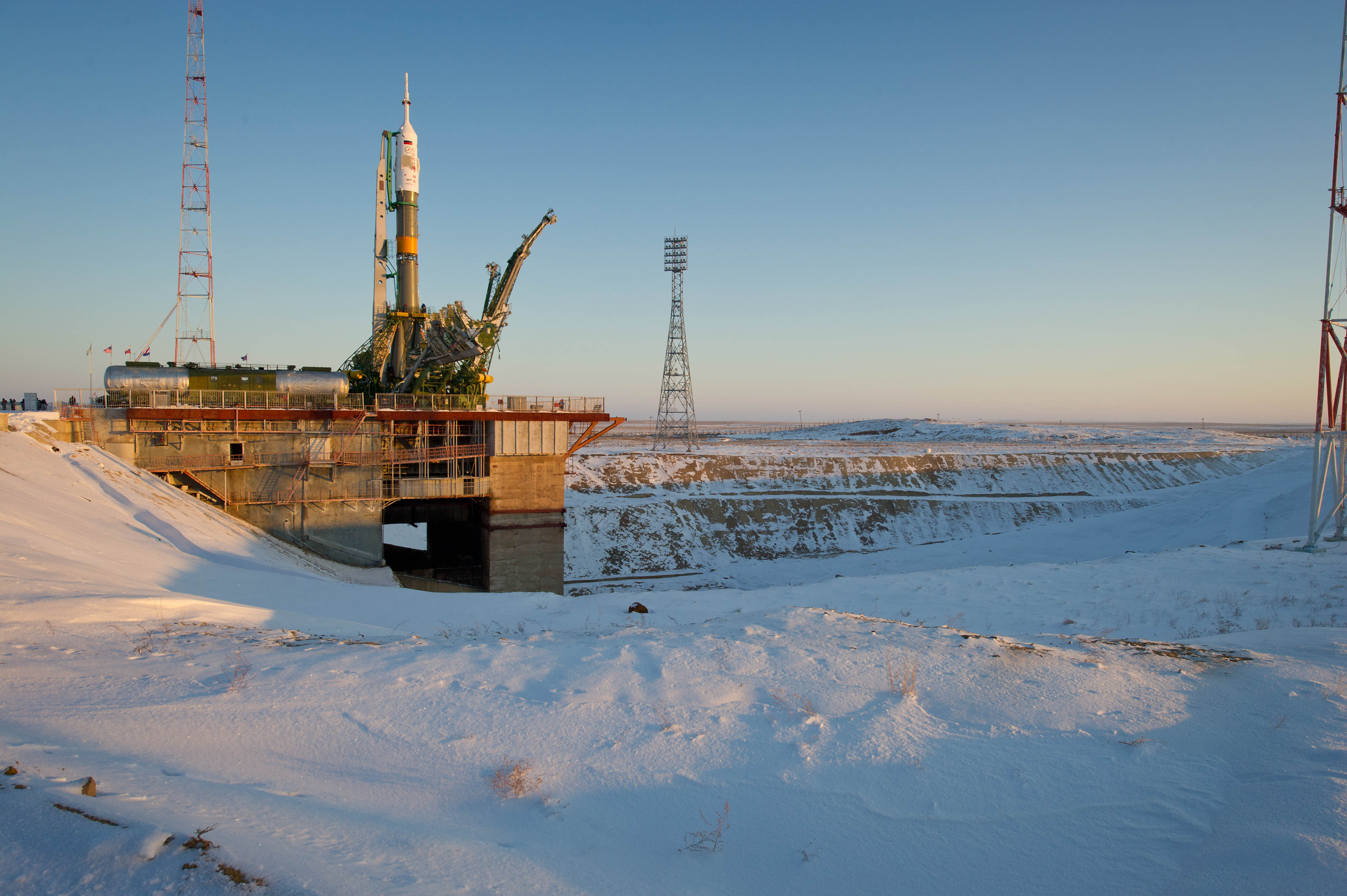 The Soyuz TMA-03M spacecraft is seen at the launch pad after being raised into vertical position on Dec. 19, 2011 at the Baikonur Cosmodrome in Kazakhstan. The launch of the Soyuz spacecraft with Expedition 30 Soyuz Commander Oleg Kononenko of Russia, NASA astronaut and Flight Engineer Don Pettit and European Space Agency astronaut and Flight Engineer Andre Kuipers is scheduled for 7:16 p.m. (Kazakhstan time) on Dec. 21.